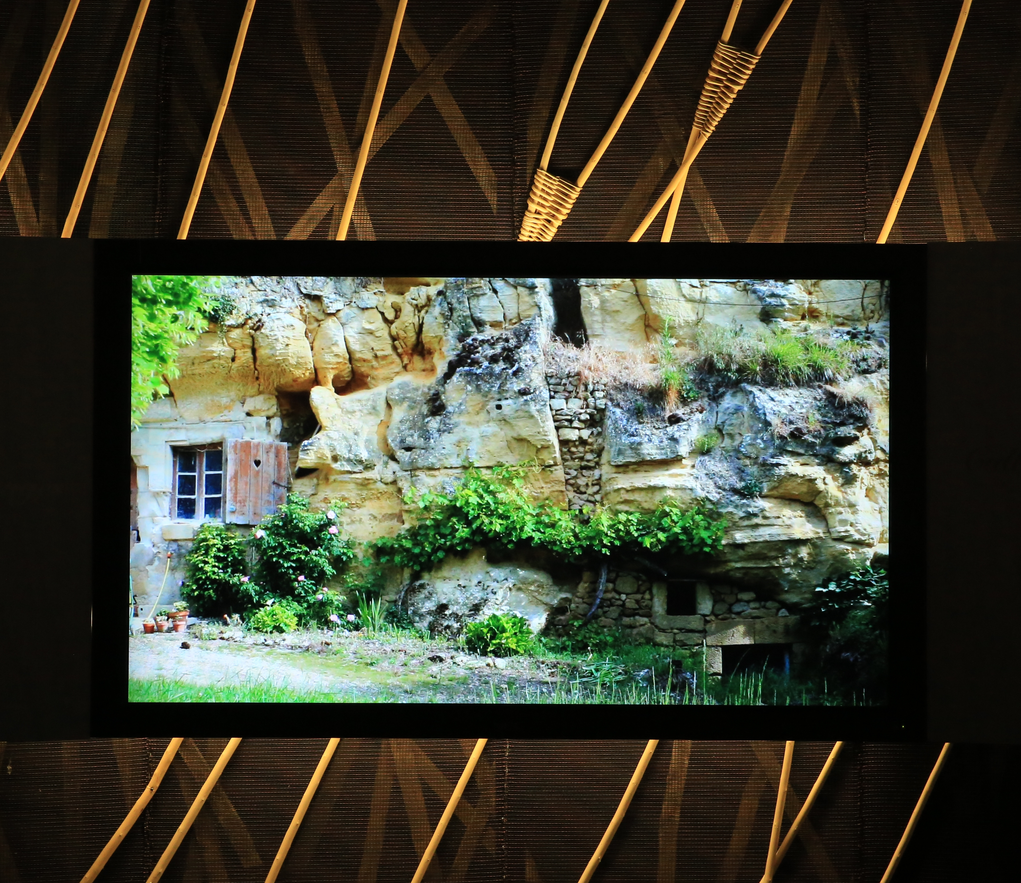 Museum of basketry in Villaines-les-Rochers : troglodyte houses in the village.